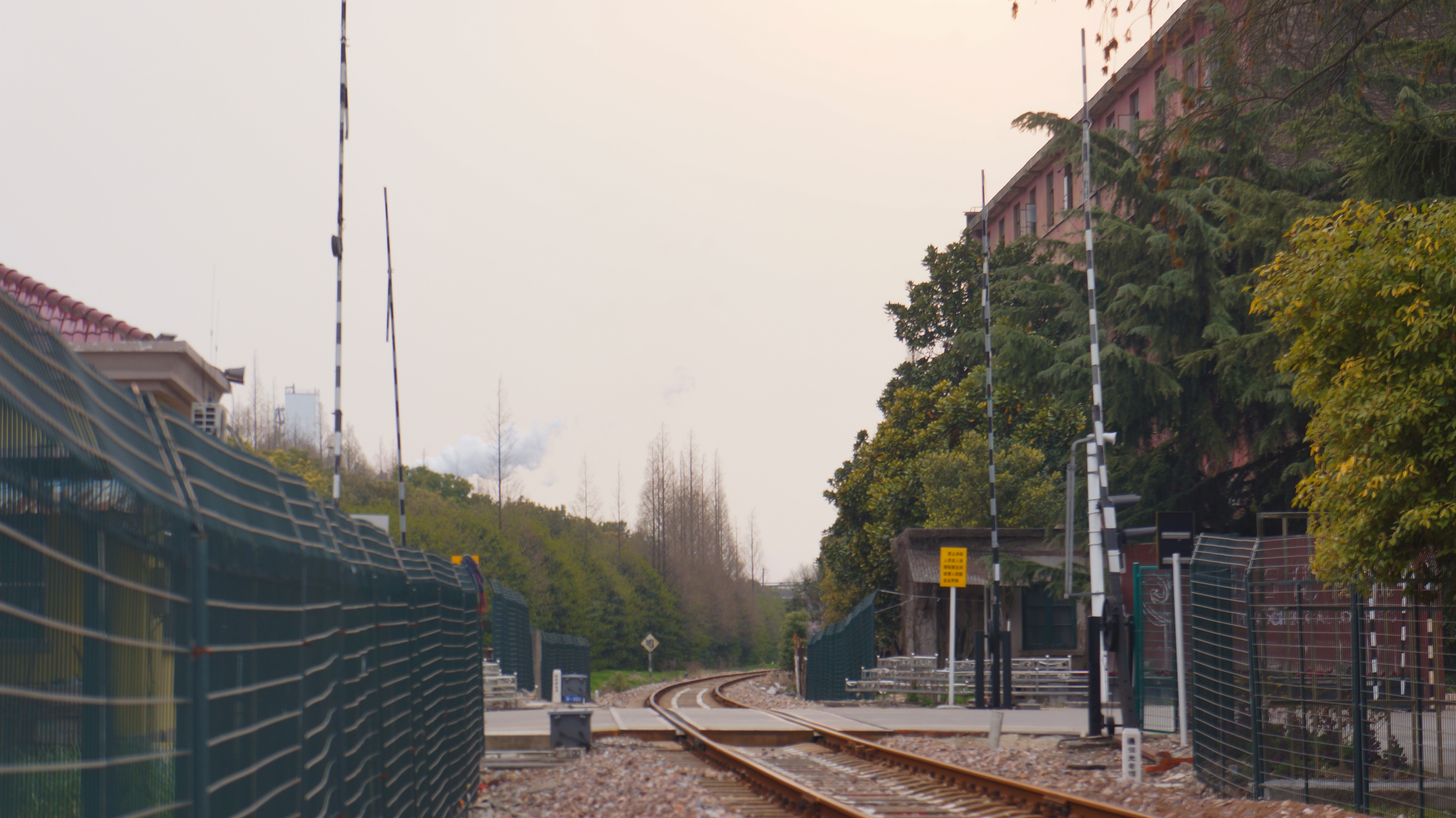 201603 Jinshan sub-line